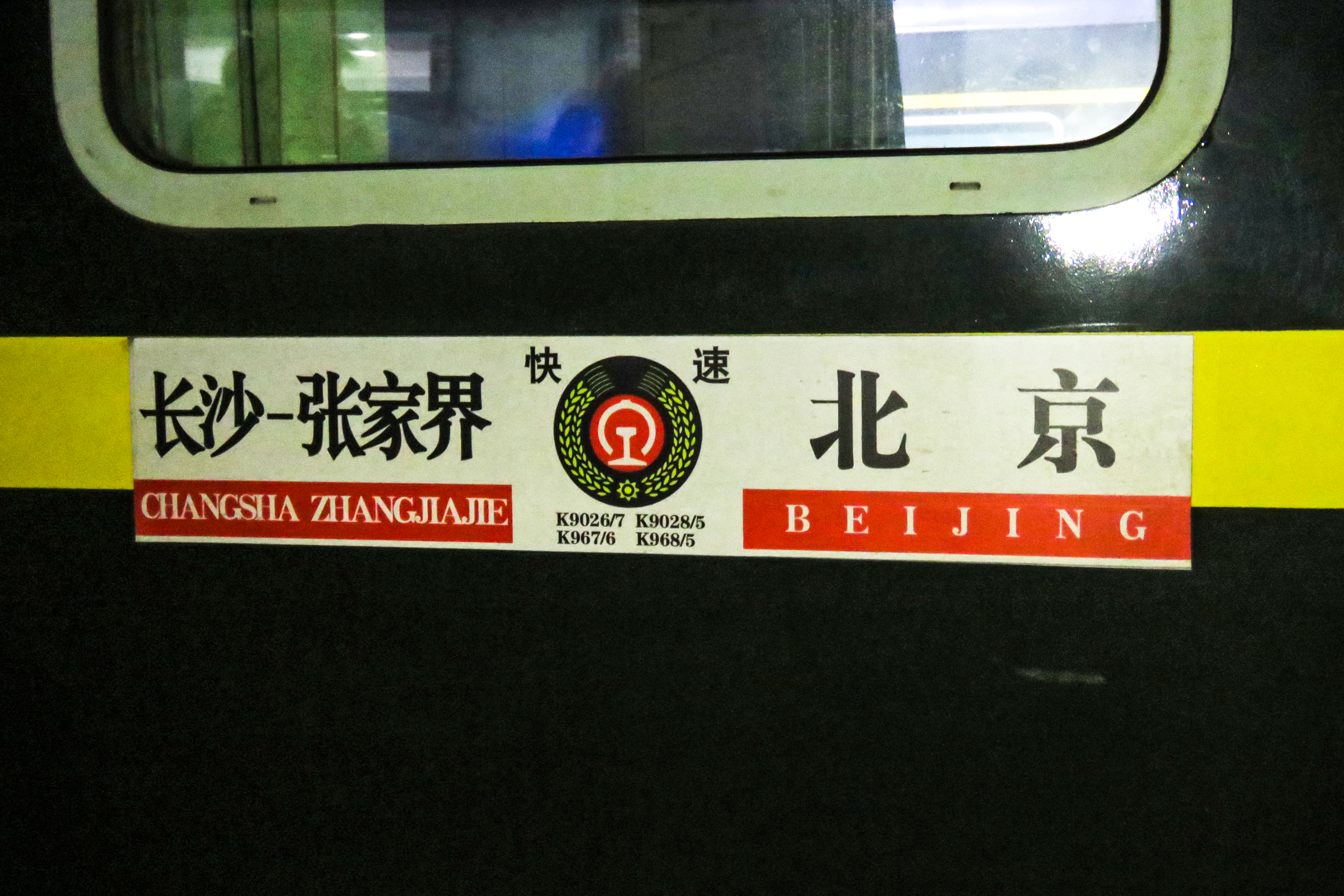 This train caters to stations along Shimen-Changsha Railway.